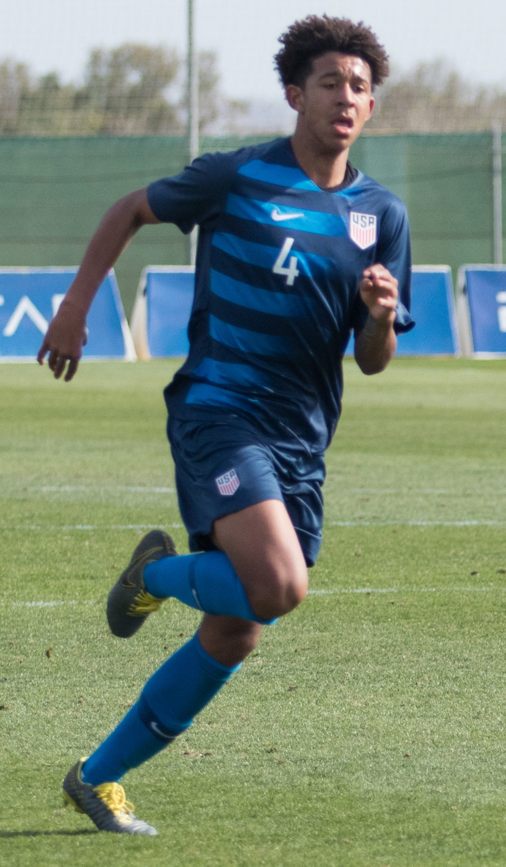 USA U20 v France U20, 22 March 2019